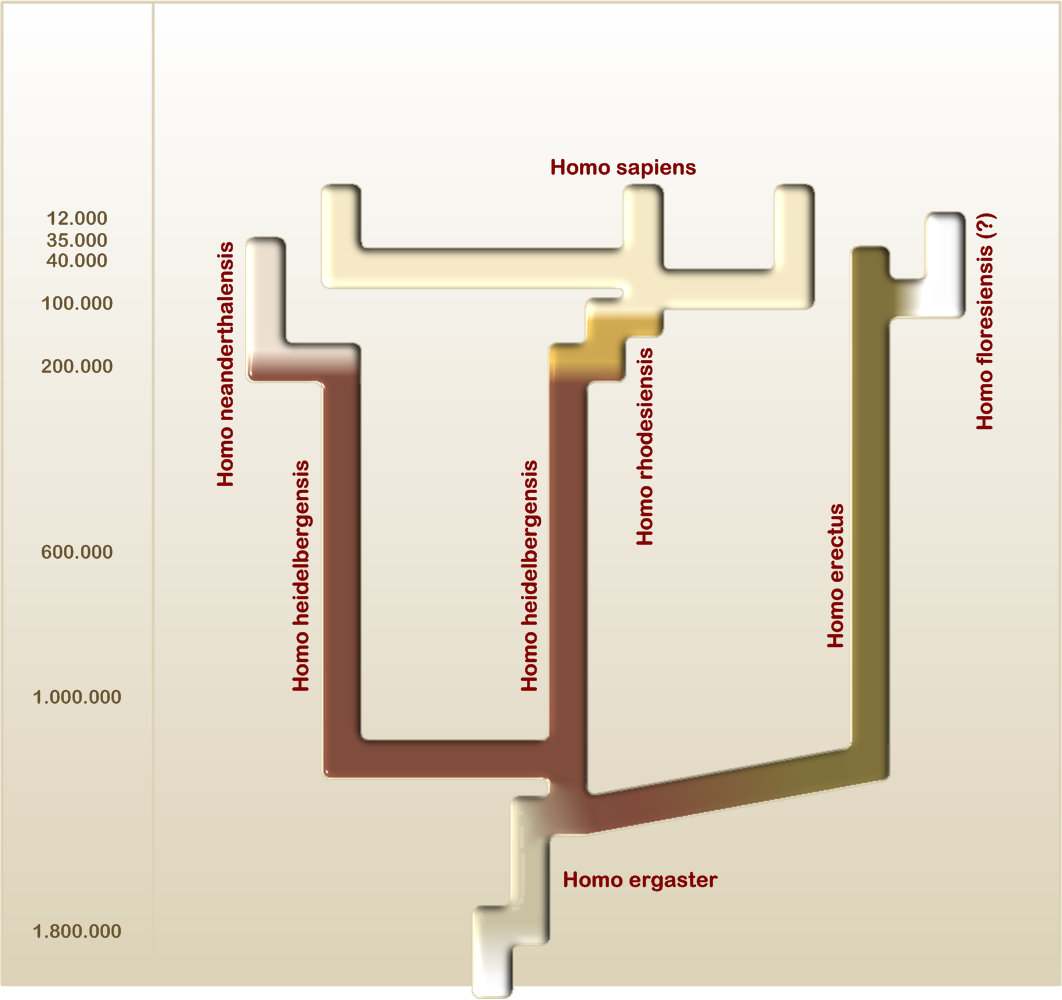 Homo evolution - extreme splitter version